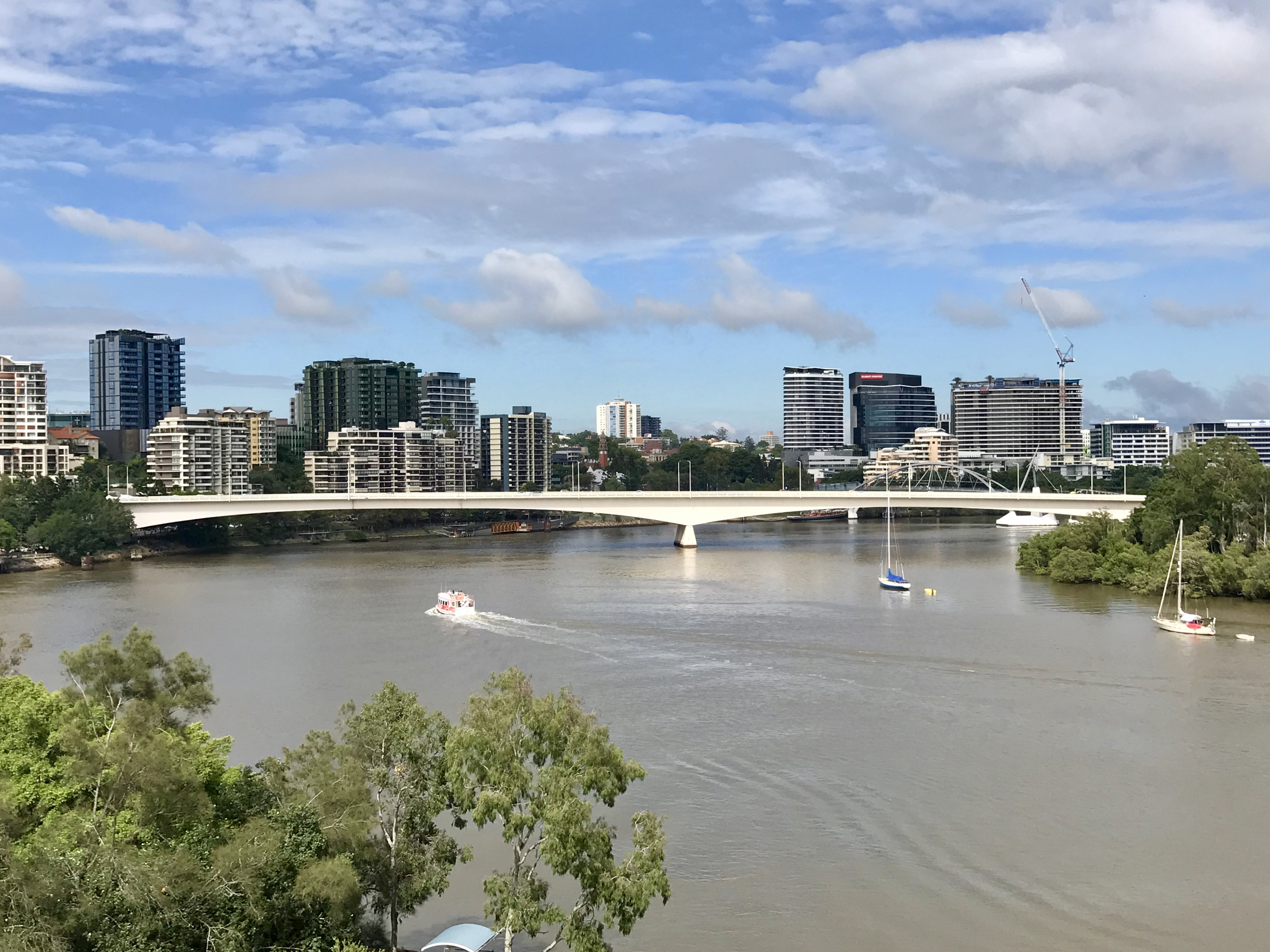 Captain Cook Bridge, Brisbane, February 2018